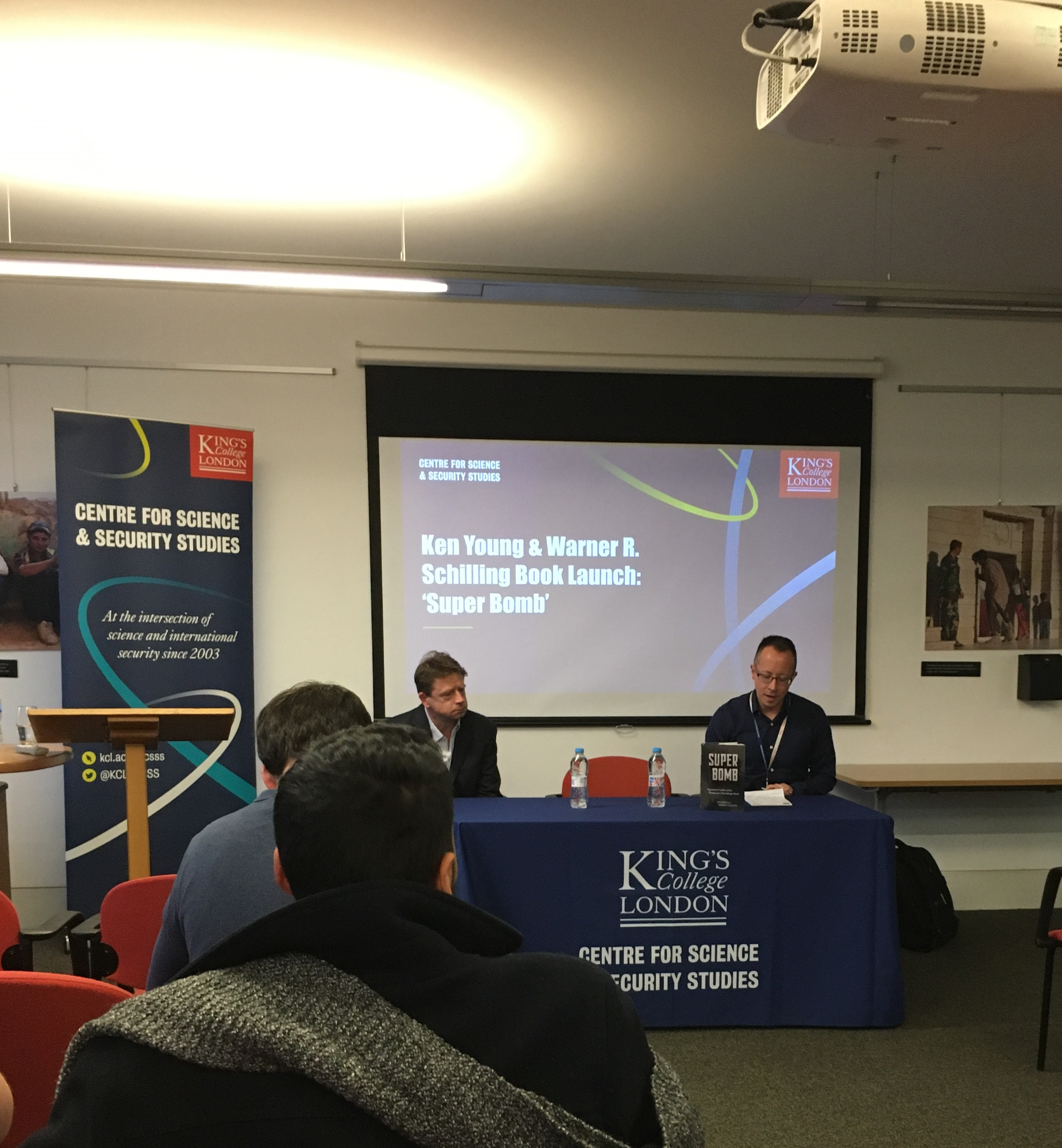 The Centre for Science & Security Studies at King's College London stages a book launch event for the work Super Bomb: Organizational Conflict and the Development of the Hydrogen Bomb by the late Ken Young (from the KCL Department of War Studies) and the late Warner R. Schilling (from Columbia University). Hosting the event, held in room K6.07 of the King's Building, is Dr Christopher Hobbs, co-director of the centre (right) and the featured speaker is Dr Richard Moore, visiting fellow at the centre (left).